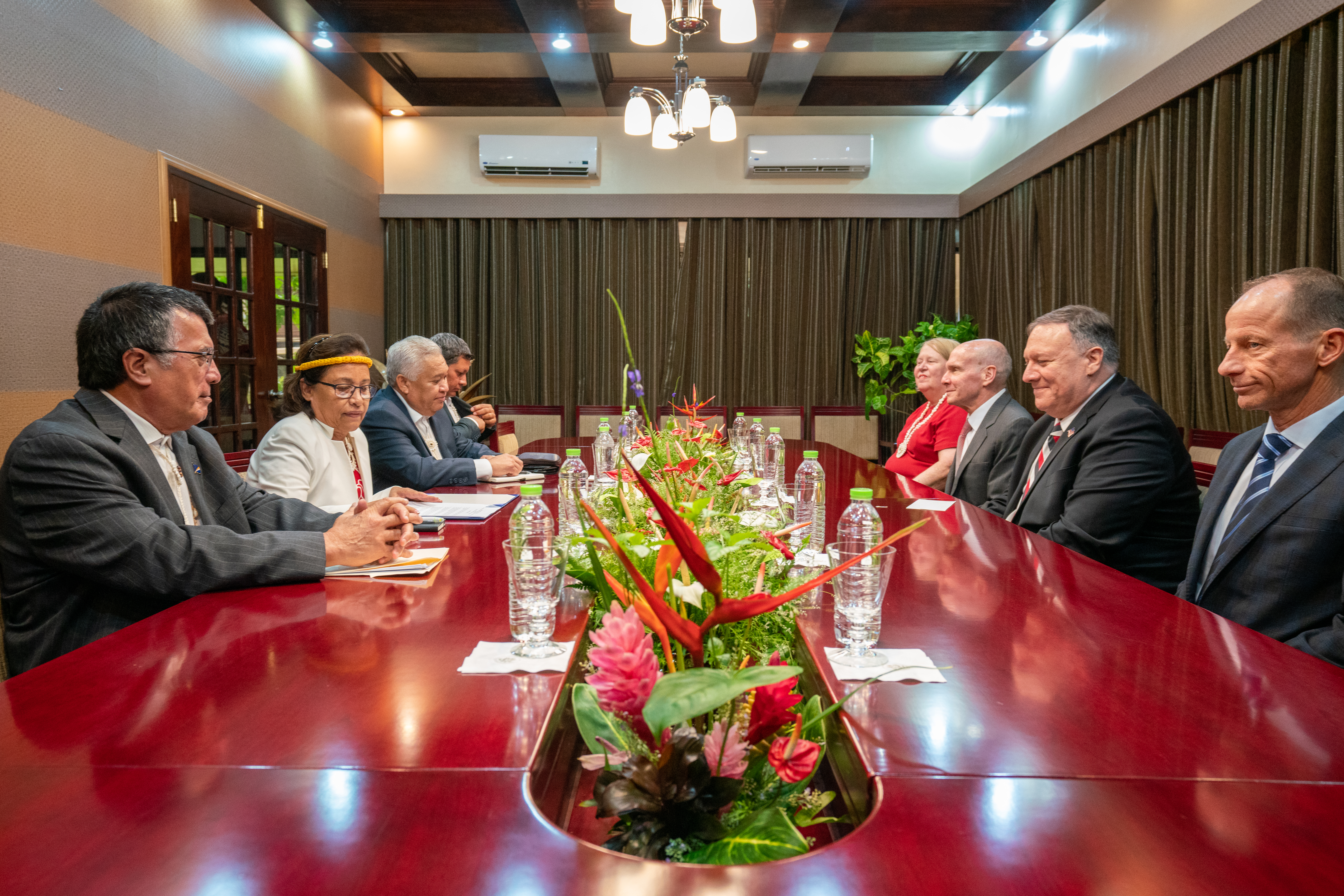 U.S. Secretary of State Michael R. Pompeo meets with Marshallese President Hilda Heine in Kolonia, Federated States of Micronesia, on August 5, 2019. [State Department Photo by Ron Przysucha/ Public Domain]